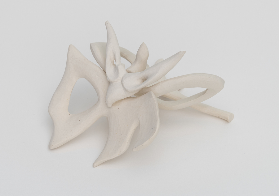 Ghost Species, 2019, Carved Clay, 6 x 8 inches. Piece by Helen Ramsaran and Photo by Cary Whittier